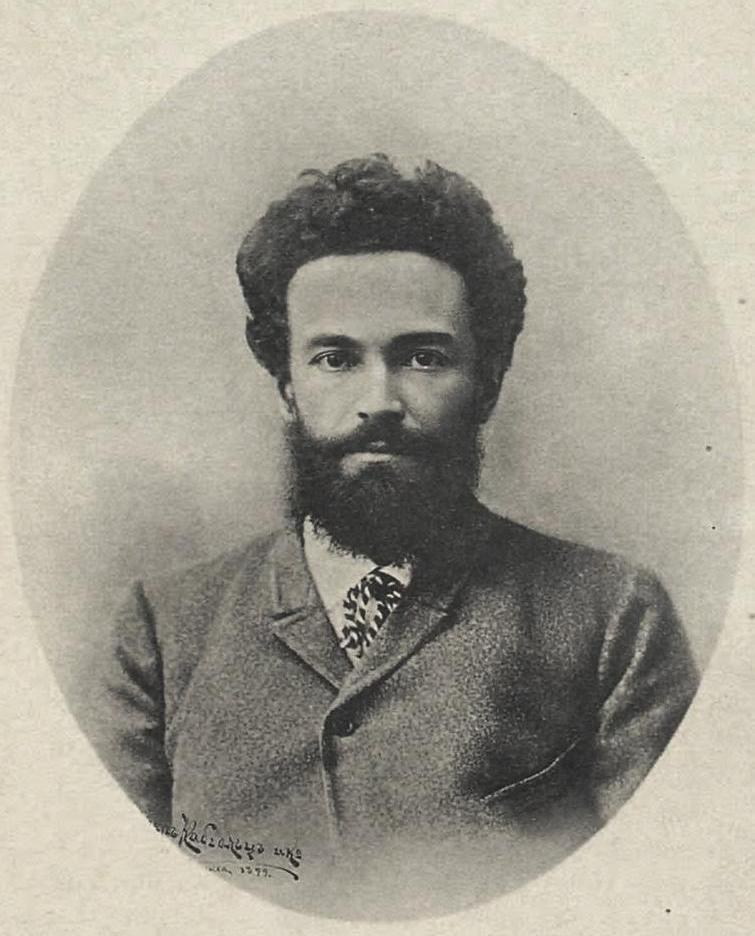 Grot, Nikolay Jakovlevich